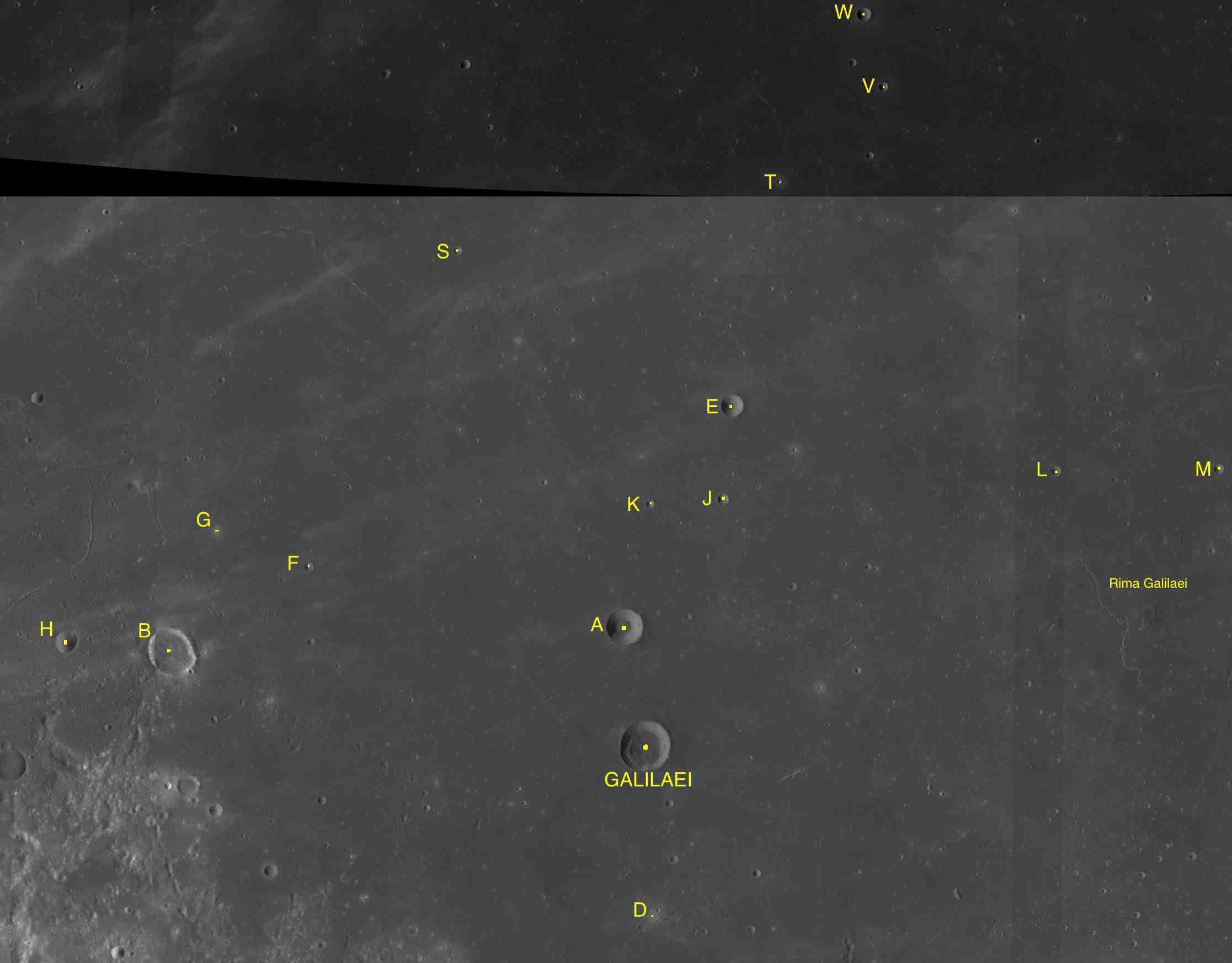 Parts of the charts LAC-38, LAC-56 used for the presentation